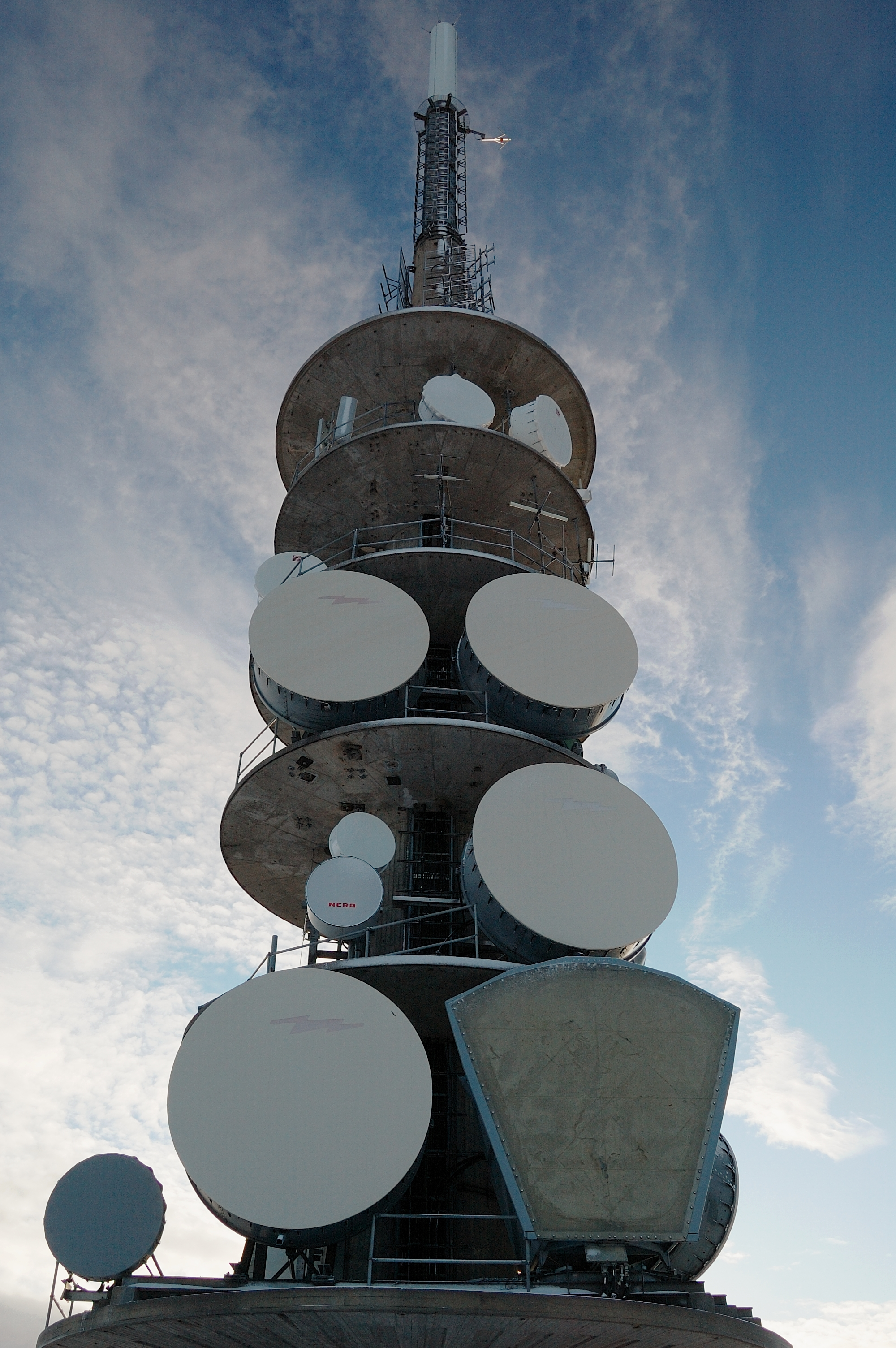 TV Tower atop the Ulriken mountain in Bergen, Norway.